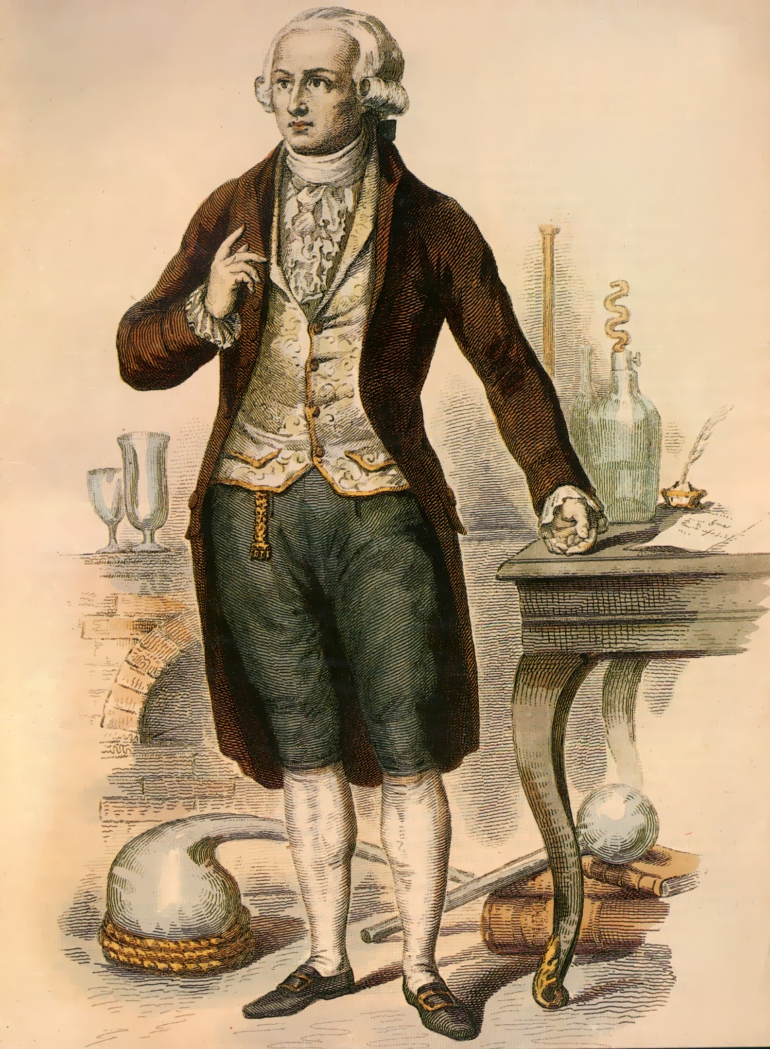 Antoine-Laurent Lavoisier. Line engraving by Louis Jean Desire Delaistre, after a design by Julien Leopold Boilly. Modific. version 2.